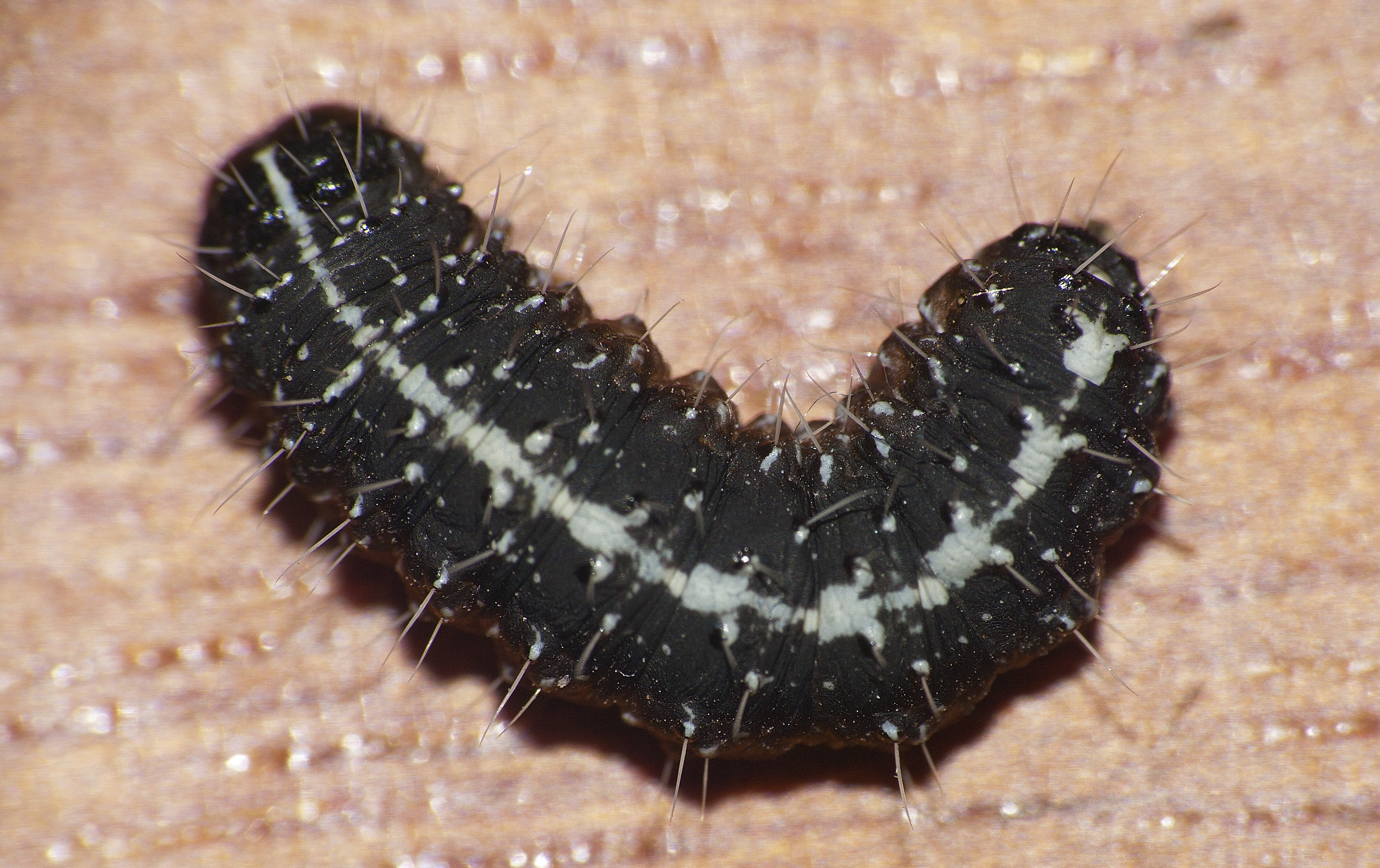 Pentax K20D - 1/180 - f/16.0 - 113 mm - ISO:200 - Flash:On, Fired. Reino: Animalia Phylum: Arthropoda Clase: Insecta Orden: Lepidoptera Familia: Noctuidae Género: Cryphia Especie: C. muralis Nombre binomial: Nyctobrya (Cryphia) muralis Forster, 1771 Un lástima no haber podido ver a la polilla que es realmente bella. se alimenta de líquenes, especialmente de Diploica canescens A pity not being able to see the moth which is really beautiful. feeds on lichens, especially of Diploica canescens